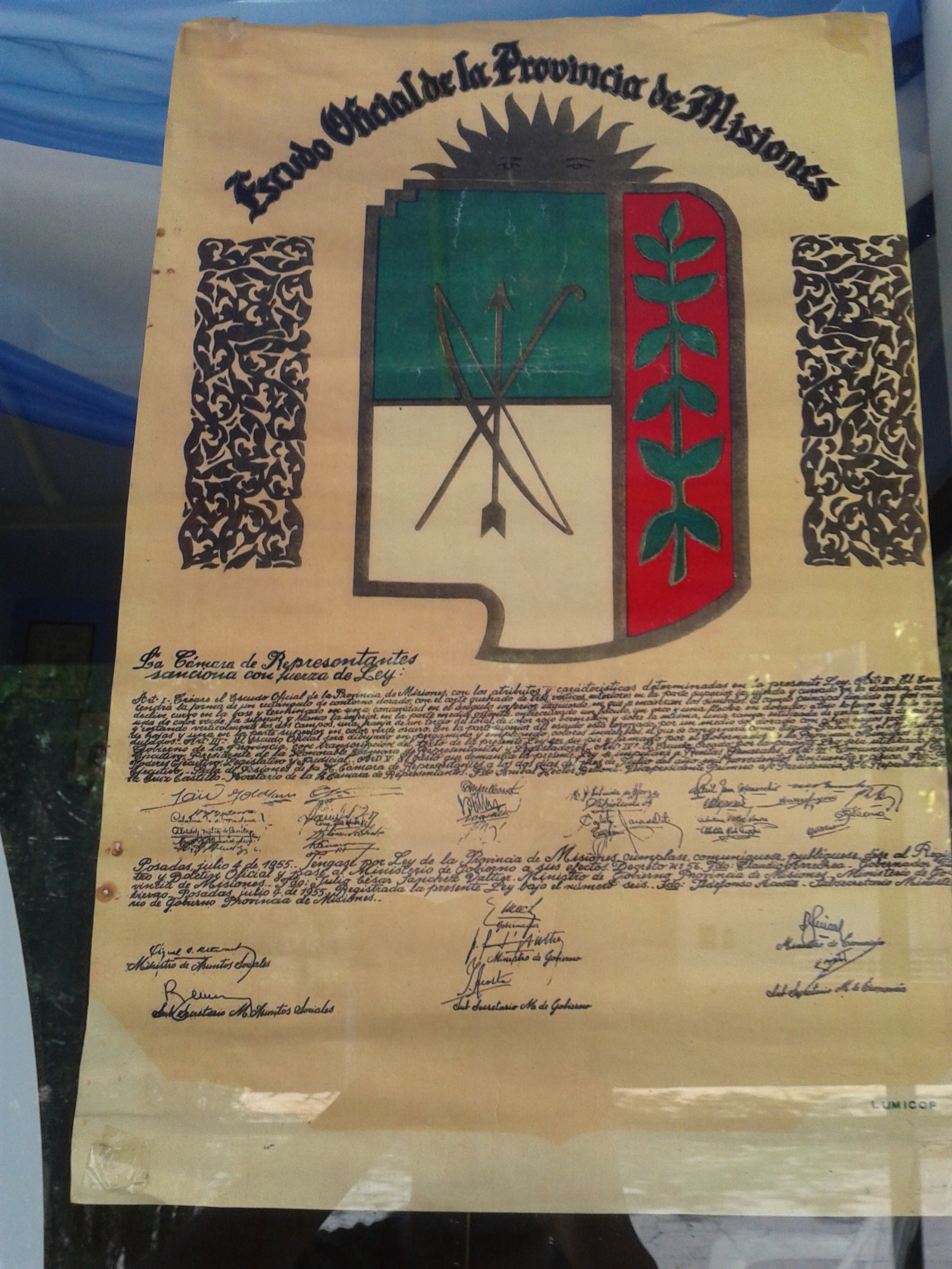 Former coat of arms of Misiones Province, Argentina.